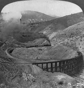 Climbing the last loop, on the mountain railway to Morenci Copper Mines, Arizona / View from mountain of train going up looped bridge.